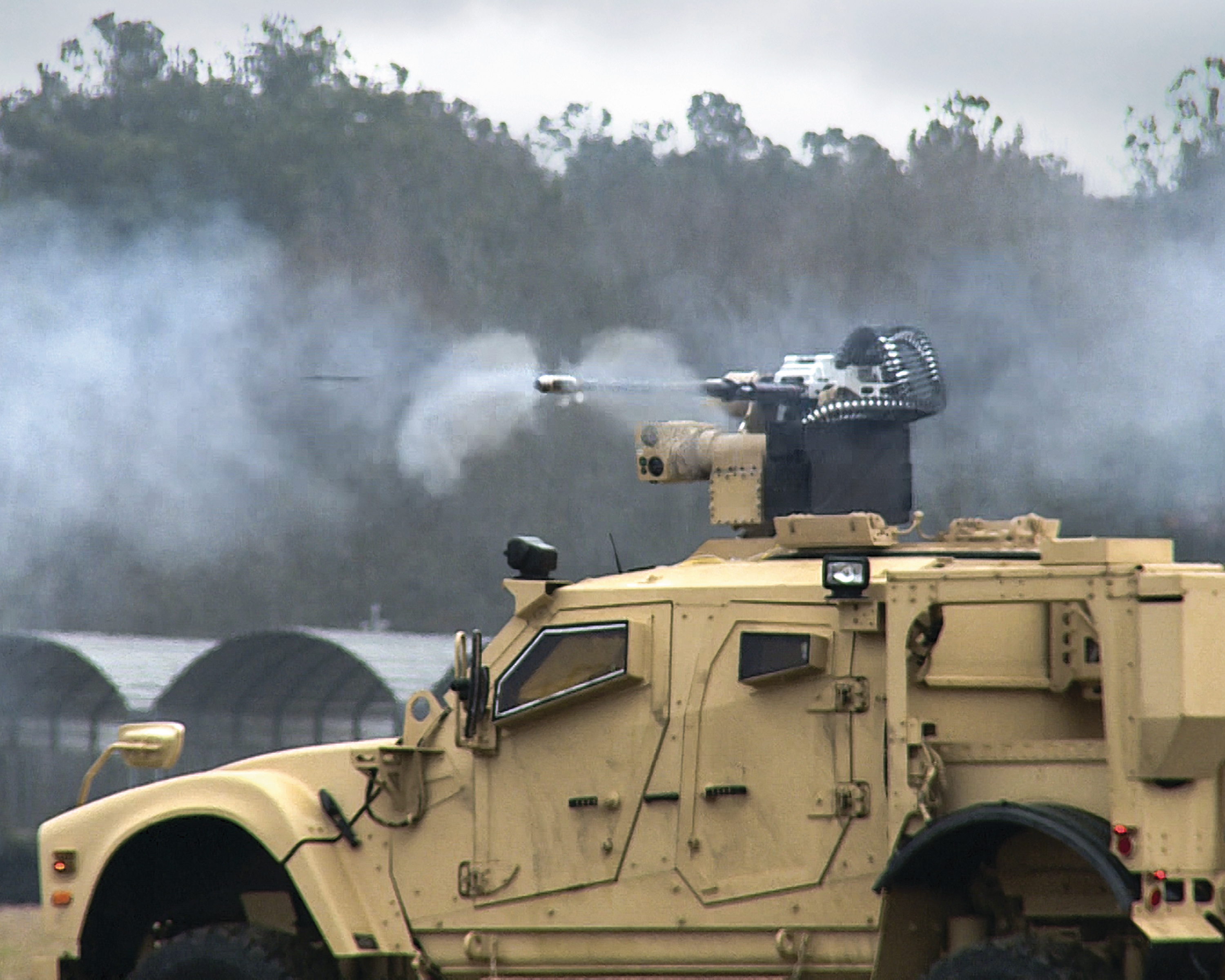 Oshkosh M-ATV fitted with Orbital ATK's M230 LF 30mm lightweight automatic chain gun mounted on EOS R400S-MK2 remote weapon station